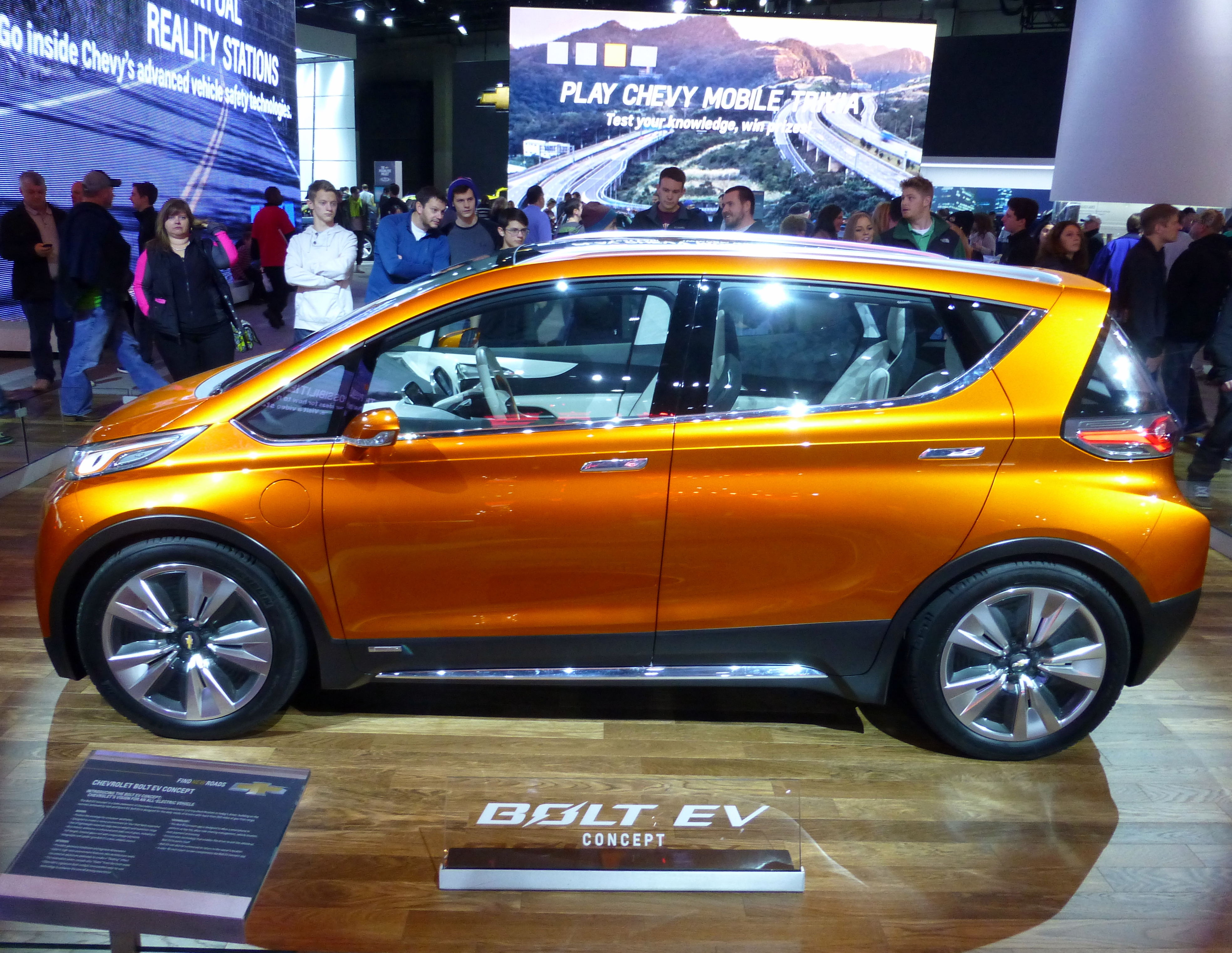 Chevrolet Bolt EV concept electric car at the 2015 North American International Auto Show